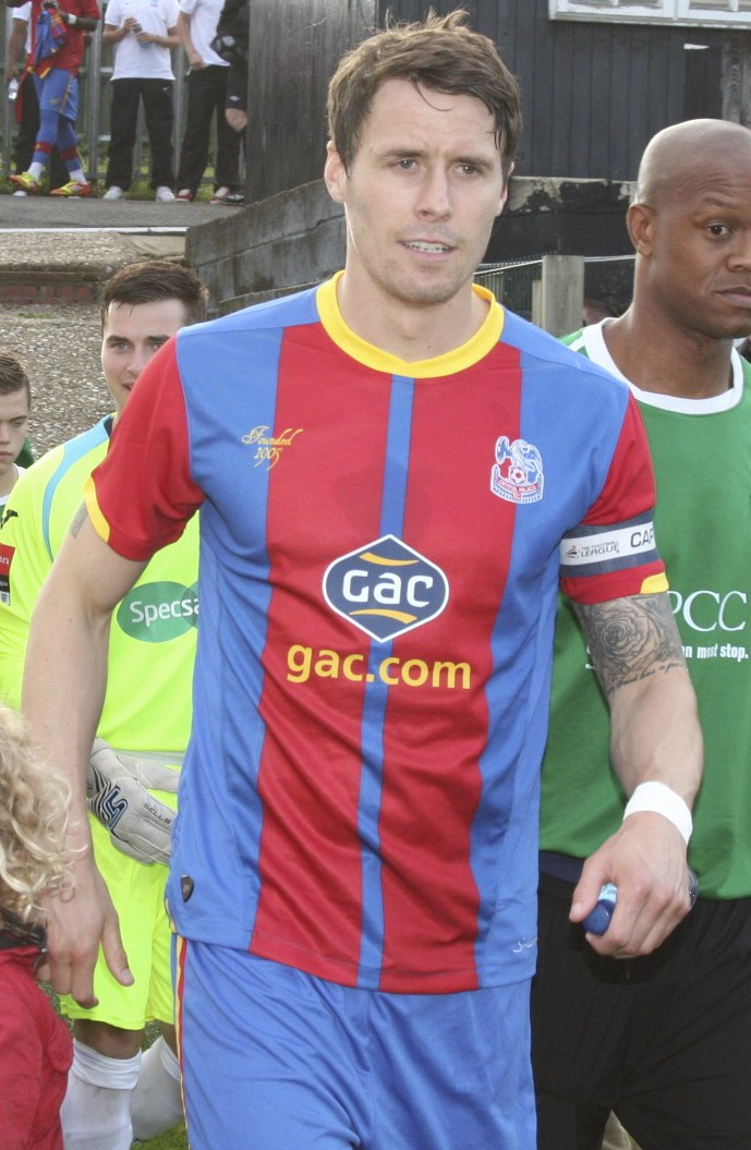 Captain Paddy McCarthy leading Crystal Palace out before a match against Lewes.